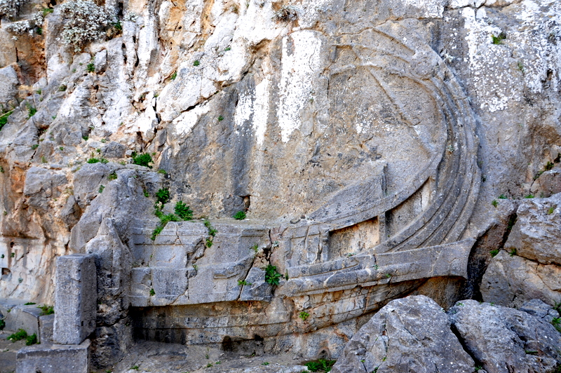 Niemal naturalnej wielkości (burta o wysokości rosłego człowieka) płaskorzeźba greckiego okrętu, zapewne z wczesnego okresu hellenistycznego. Podobnie jak wiele obiektów w Lindos, bardzo starannie opisana tablicami informacyjnymi, których jednak nie można w Wiki przedstawiać.